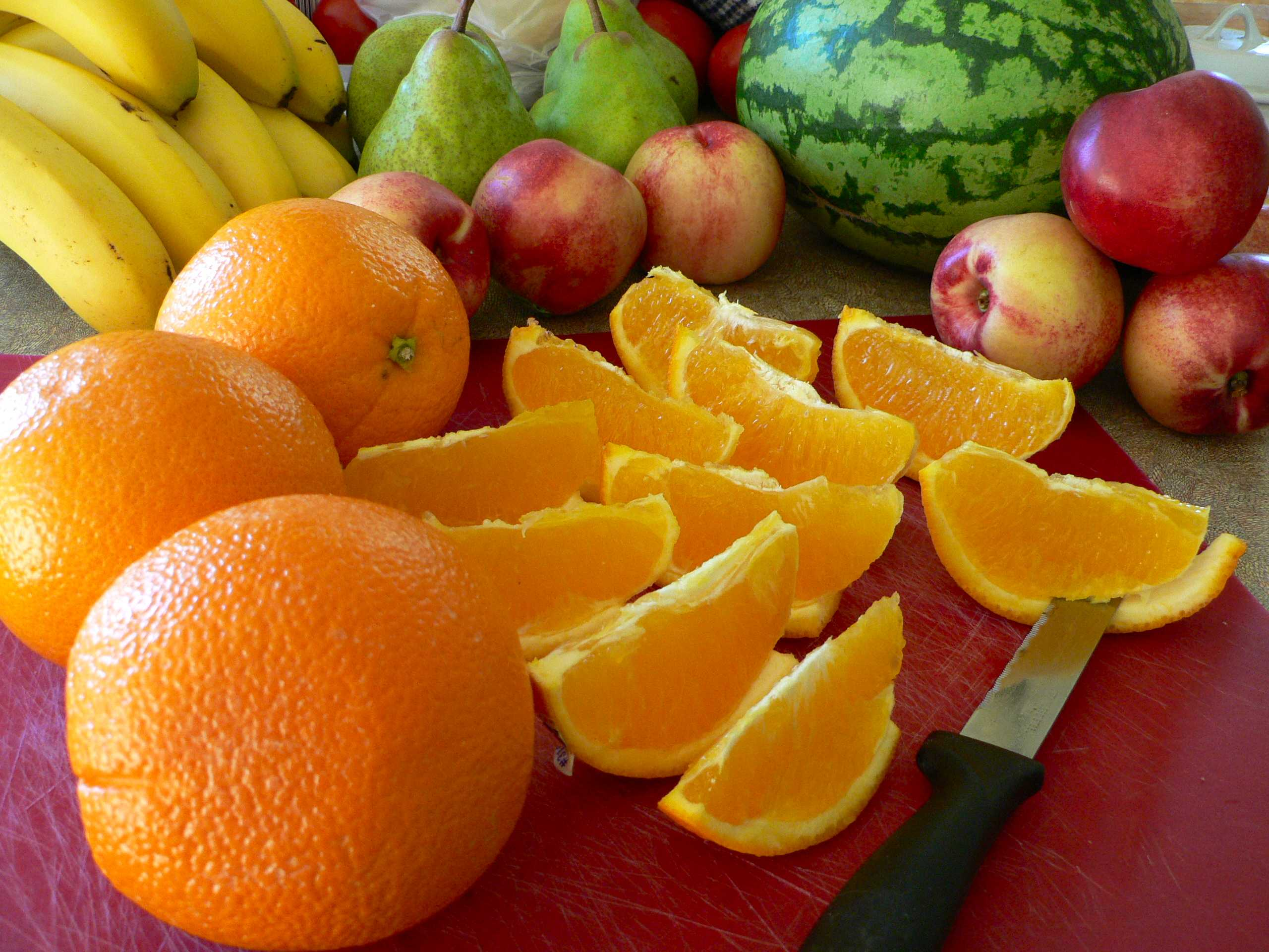 Sunkist oranges, bananas, pears, apples, and a watermelon.